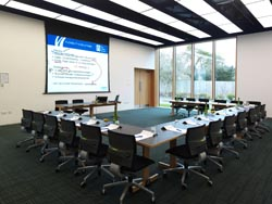 Moller Centre Study Centre